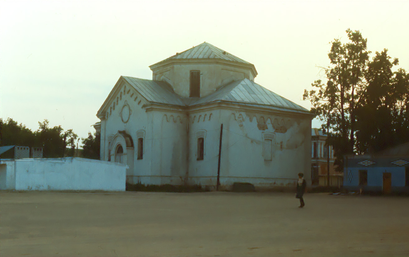 Orthodox church of Resurrection in Ashmiany, Belarus